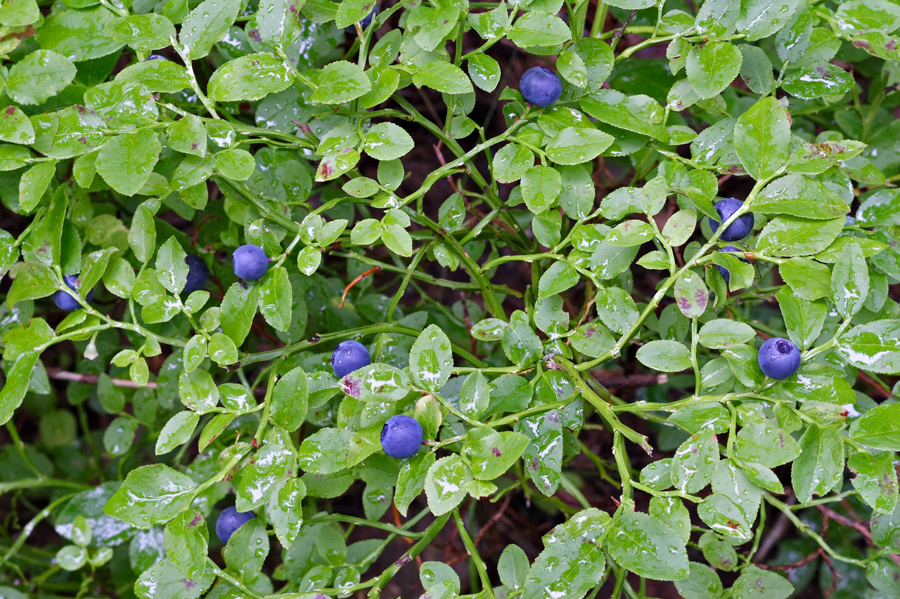 First blueberries of the season.